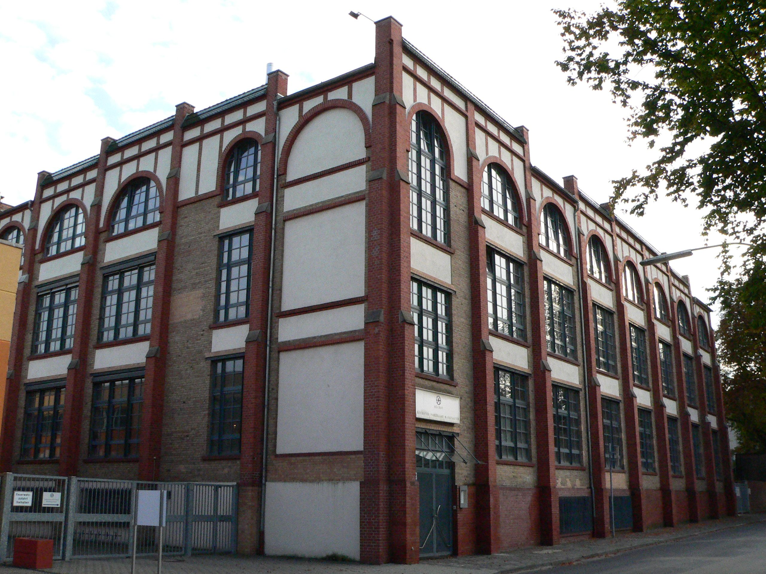 Building of the Höchst Porcelain Manufactory in the Palleskestraße, Frankfurt Höchst